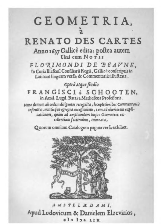 The first Latin translation of Descartes' «Geometry» (1649)